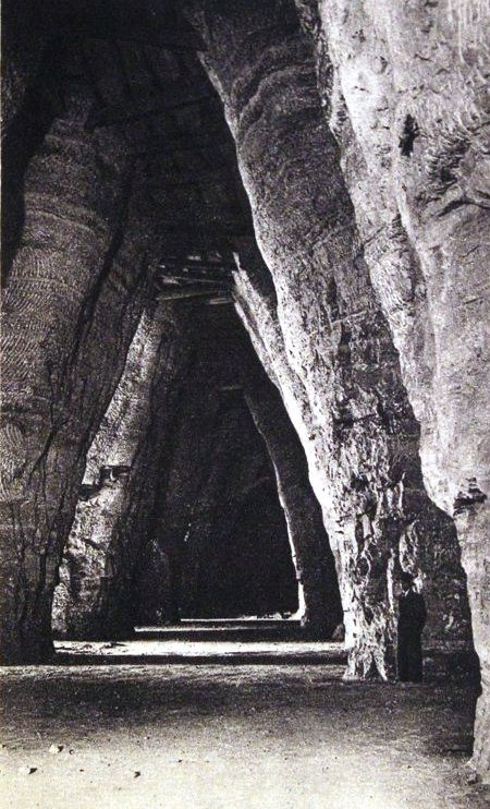 Gyspum quarry in Montmartre (Paris, France).